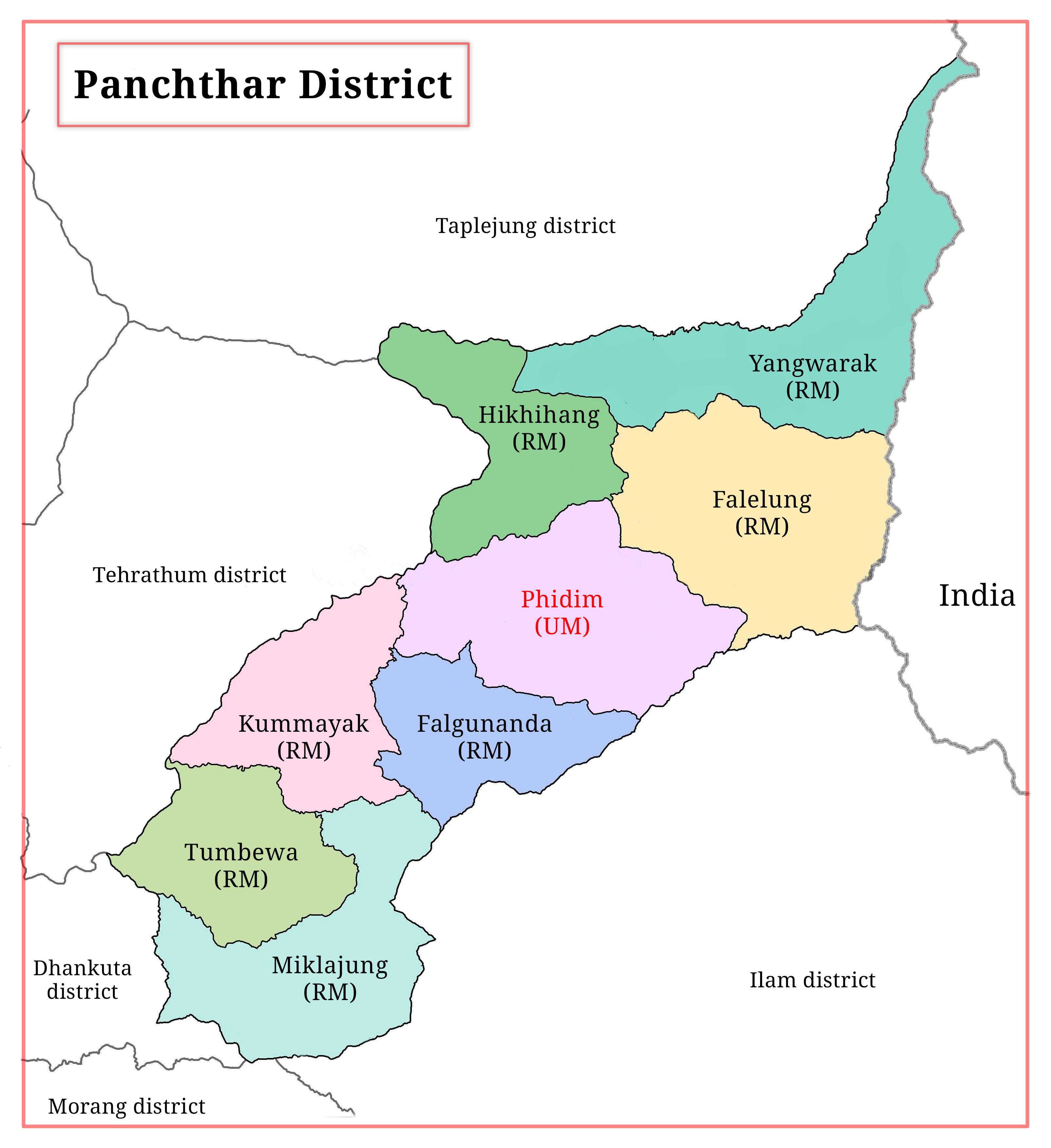 Division map of Panchthar district